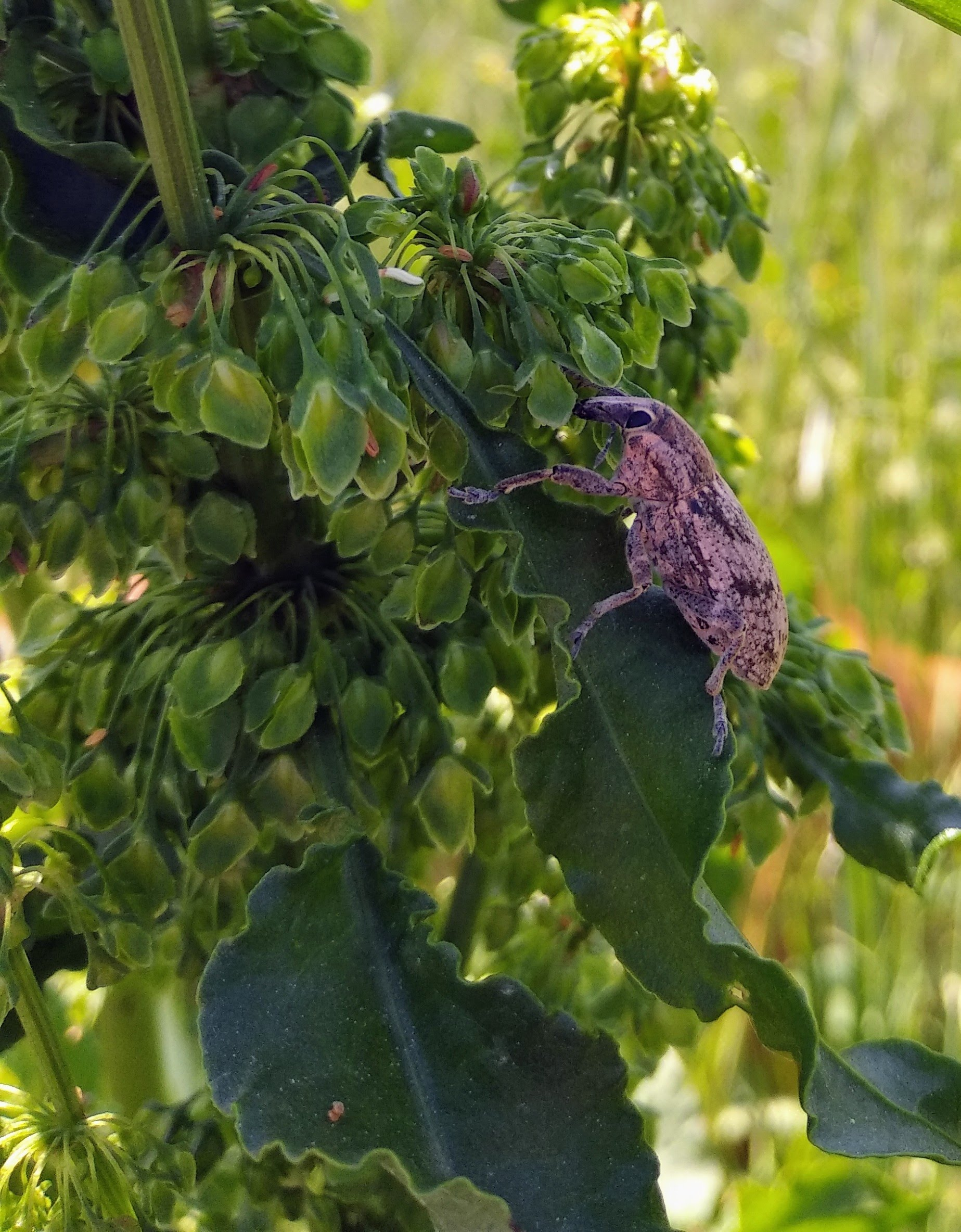 Temnorhinus mendicus (Gyllenhal, 1834)